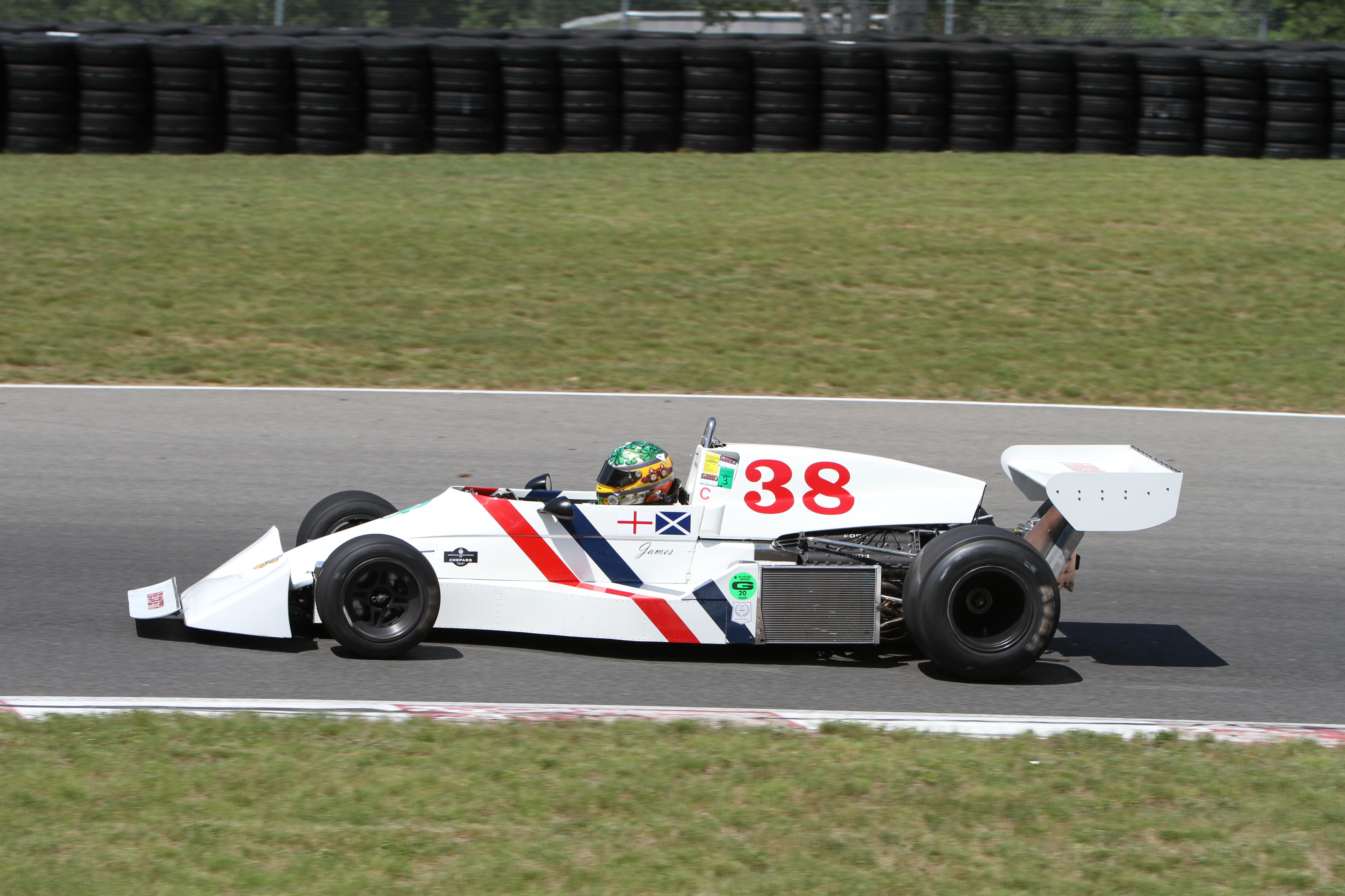 Ex-James Hunt Hesketh 308C Formula One racing car at Mont-Tremblant, during the 2010 Legends of Motorsport.